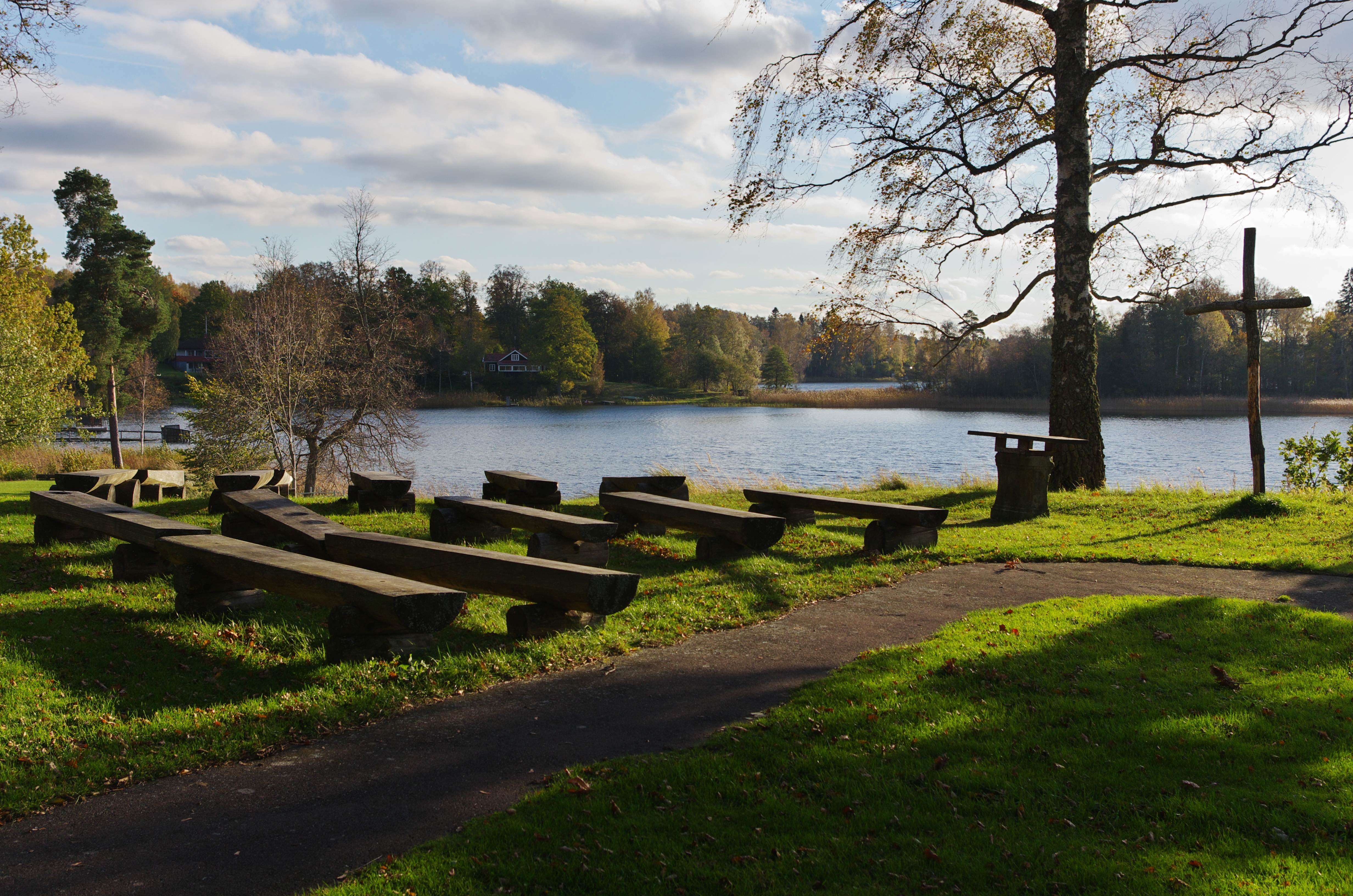 Flämslätts kyrka (english:Flämslätt church) in Västergötland and Skara municipality in Västragötaland county, Sweden.